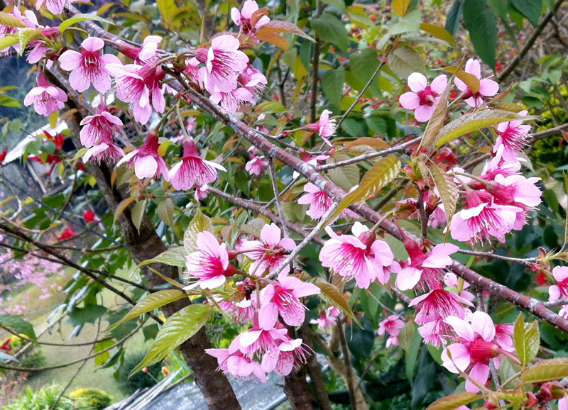 Prunus cerasoides from Khun Chang Khian, Chiang_Mai, Thailand.